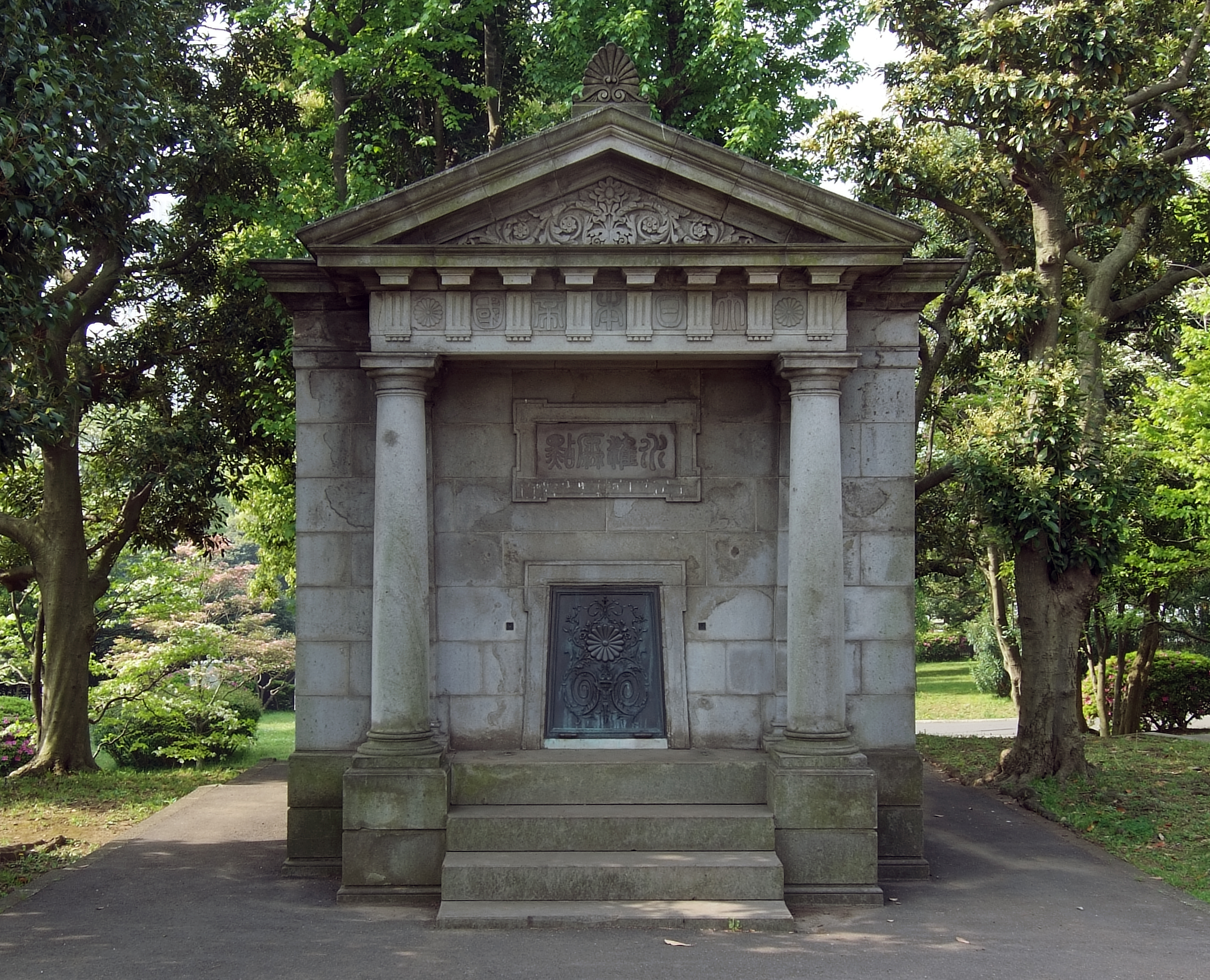 Japanese vertical datum, Chiyoda-ku Tokyo Japan, designed by Shichijiro Satachi in 1891.